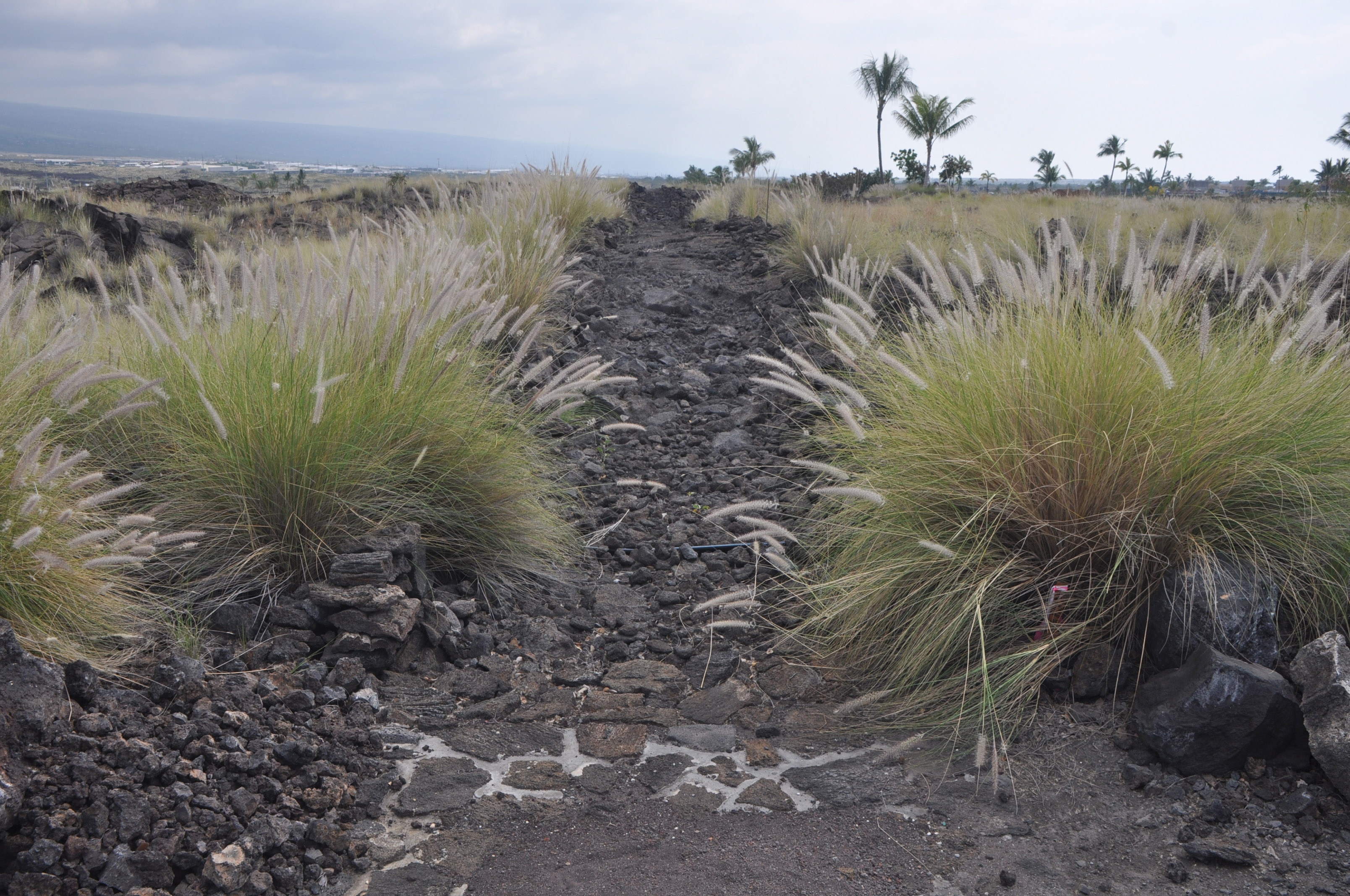 King's Trail in Kohanaiki Beach Park, Kailua-Kona, Hawaii, USA